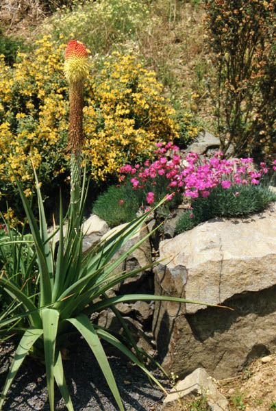 Kniphofia northiae